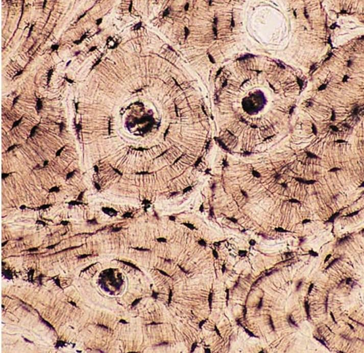 Bone Connective Tissue